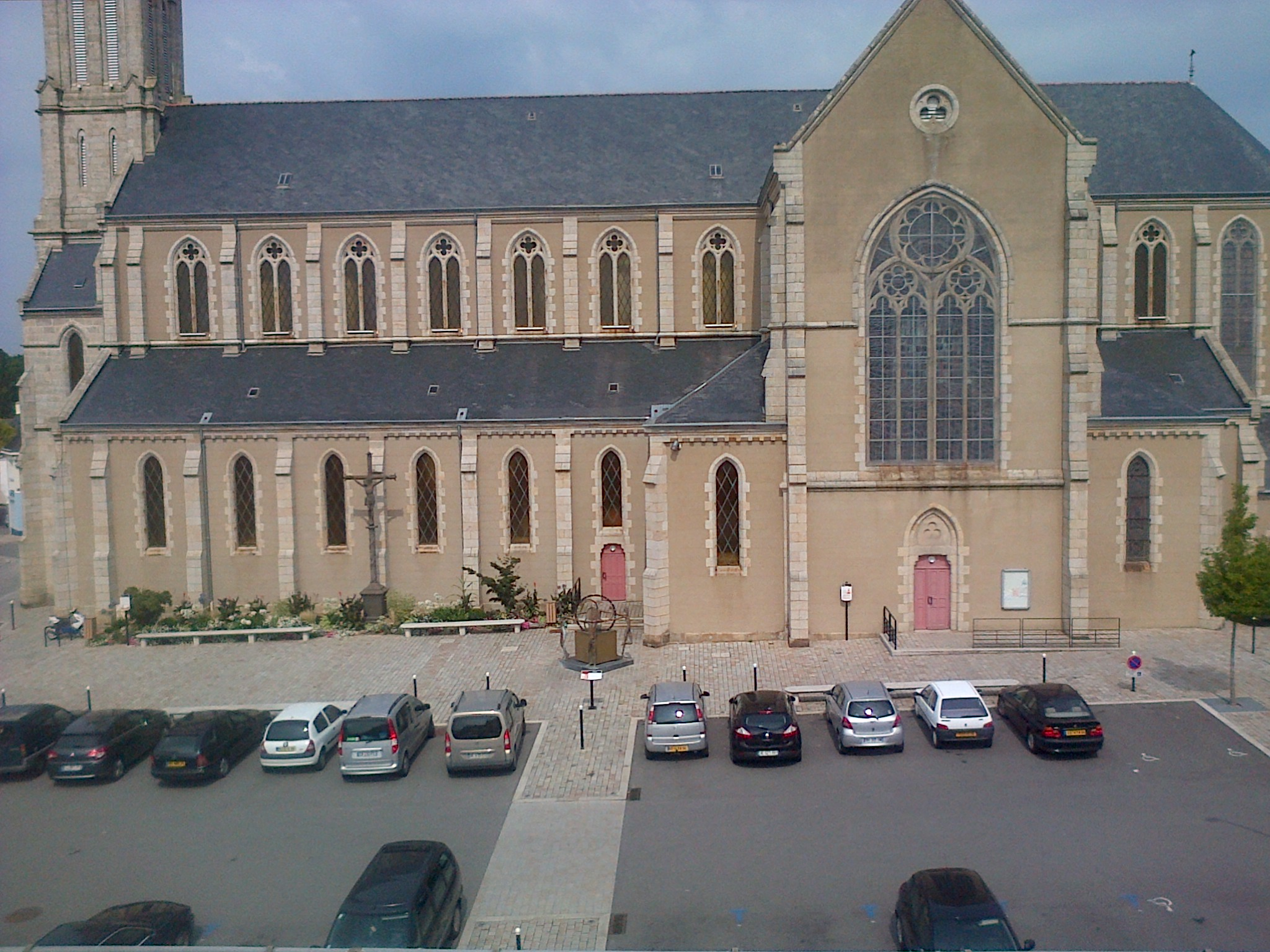 Languidic church .